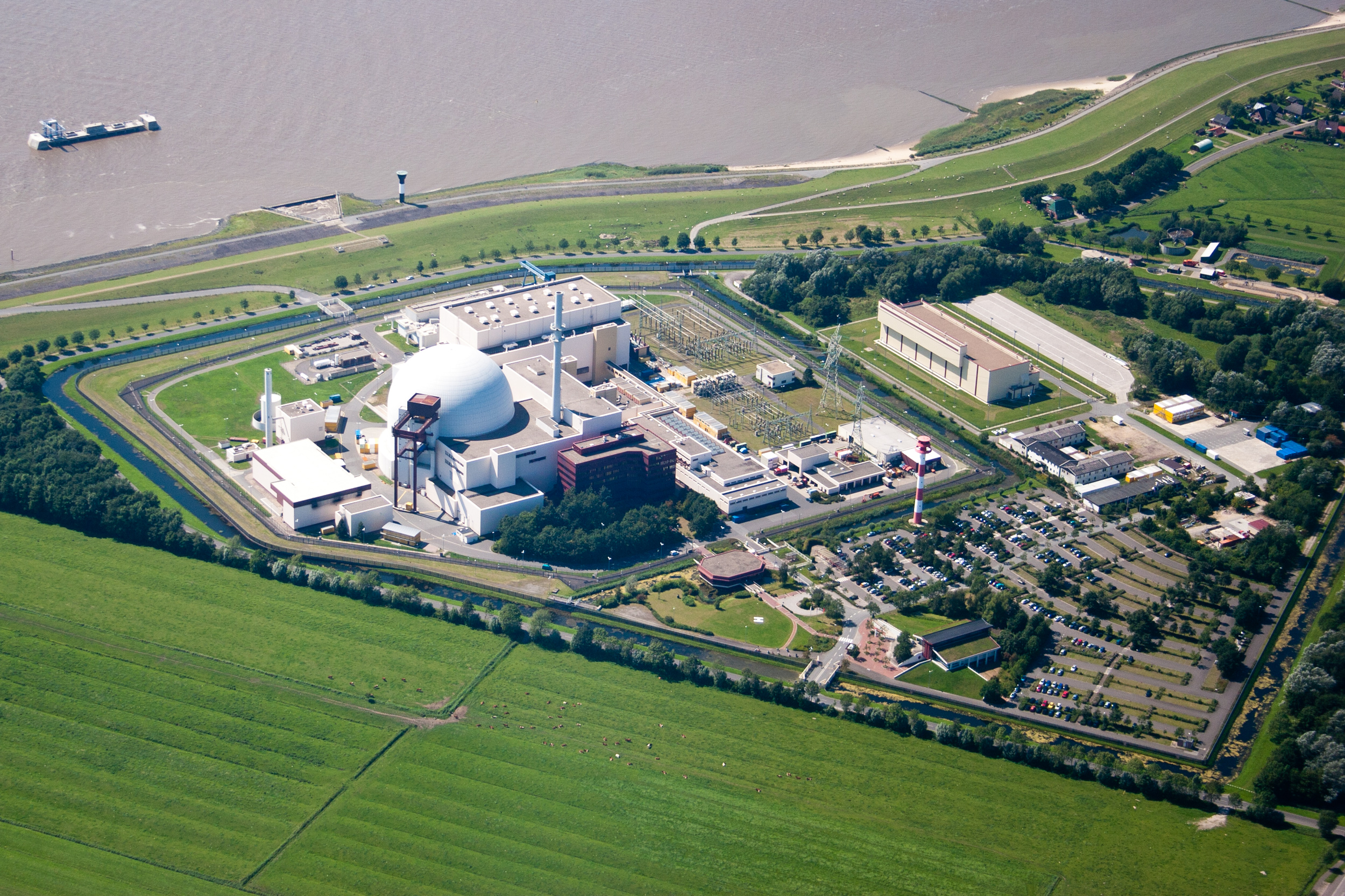 Brokdorf Nuclear Power Plant, aerial photography